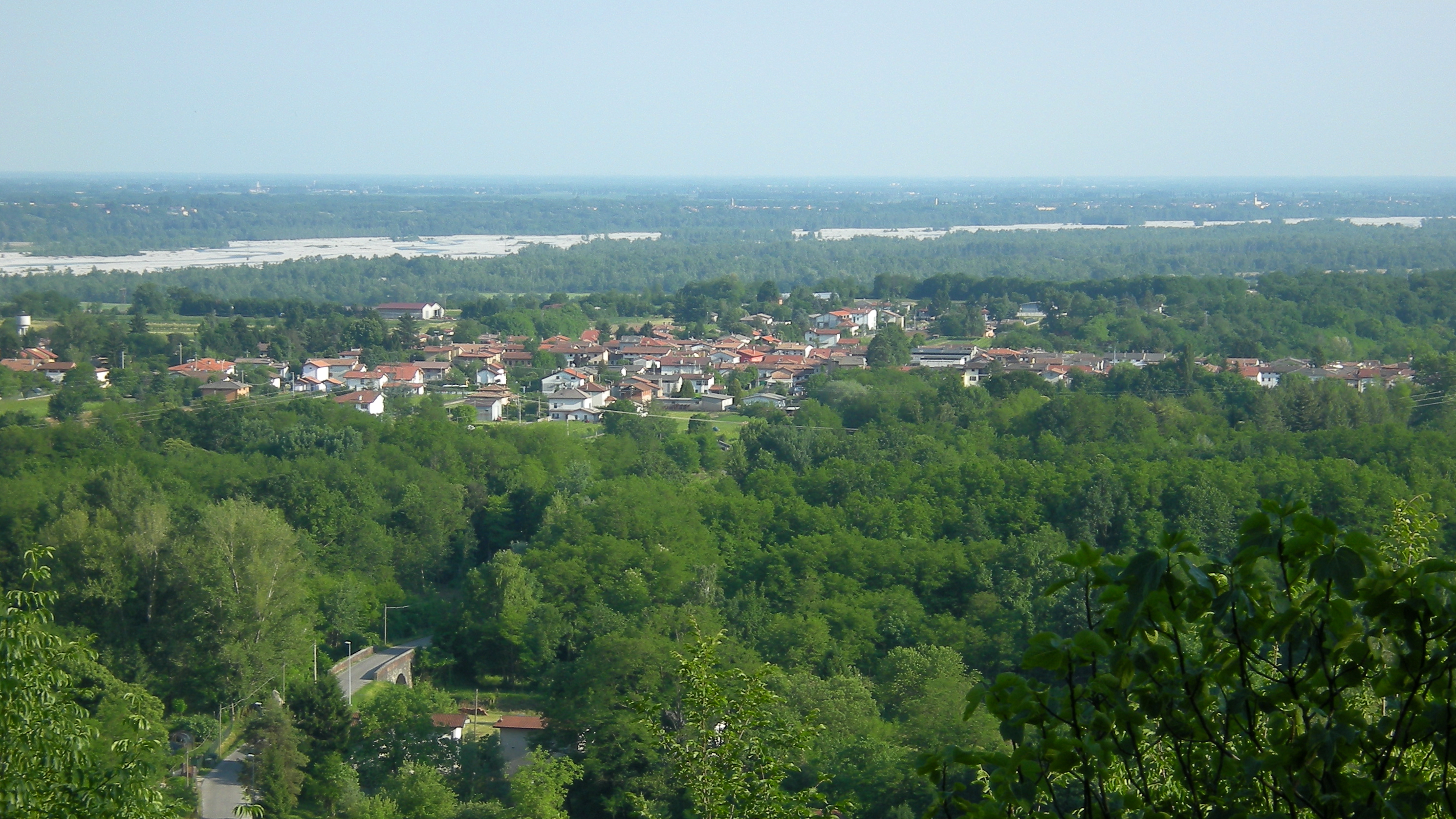 Village of Valeriano, municipality of Pinzano al Tagliamento, PN, Italy